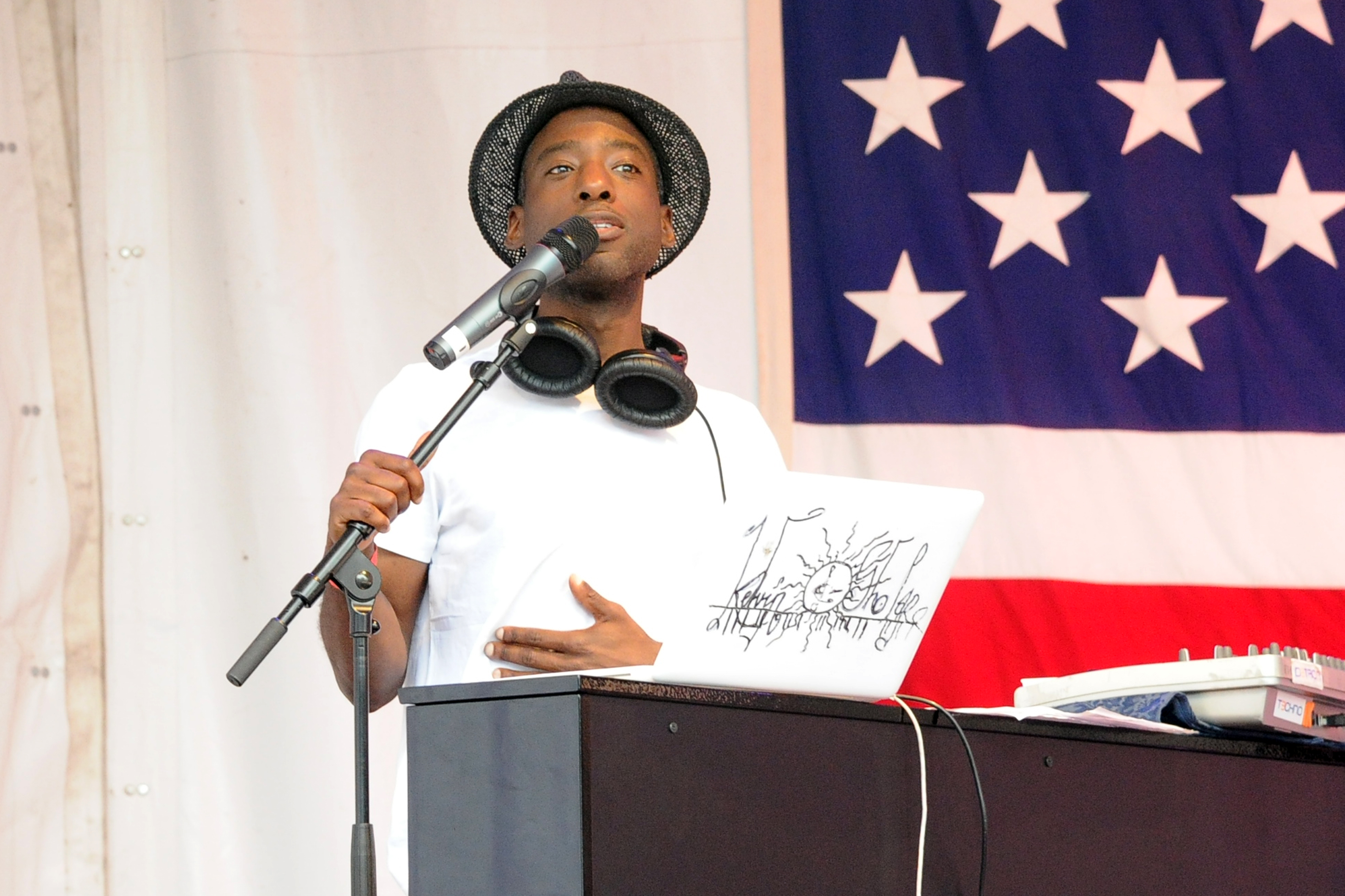 Kelvin Sholar performing. U.S. Embassy Berlin Celebrates Independence Day, July 1, 2016